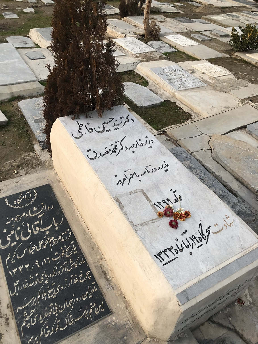 Ibn Babawayh Cemetery